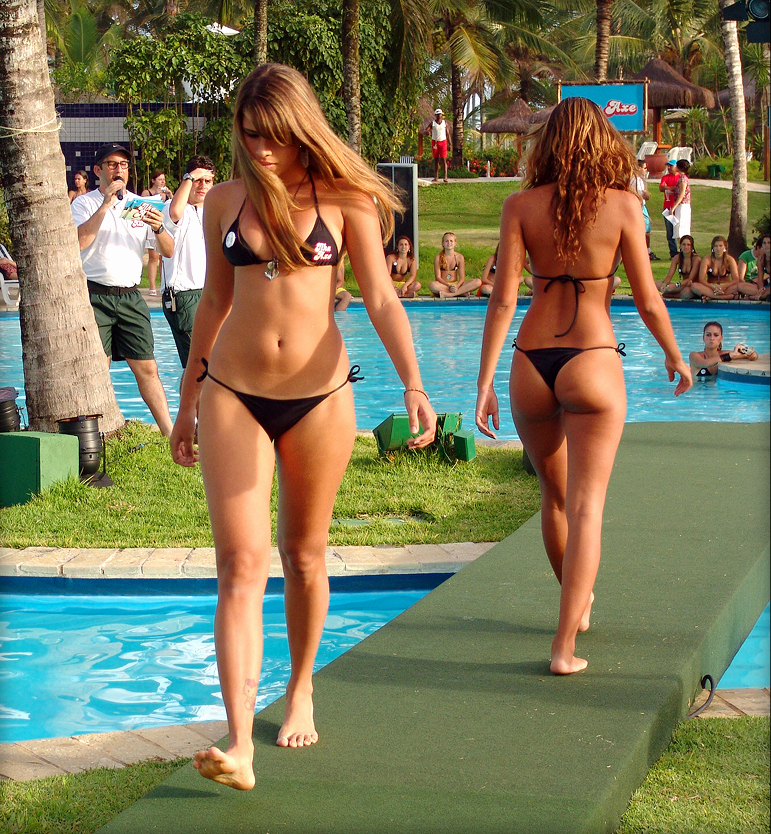 Two women in g-string-bikinis on runway